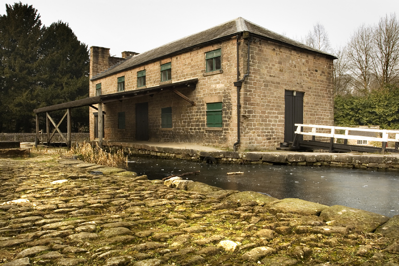 shots from the Cromford Mills Area